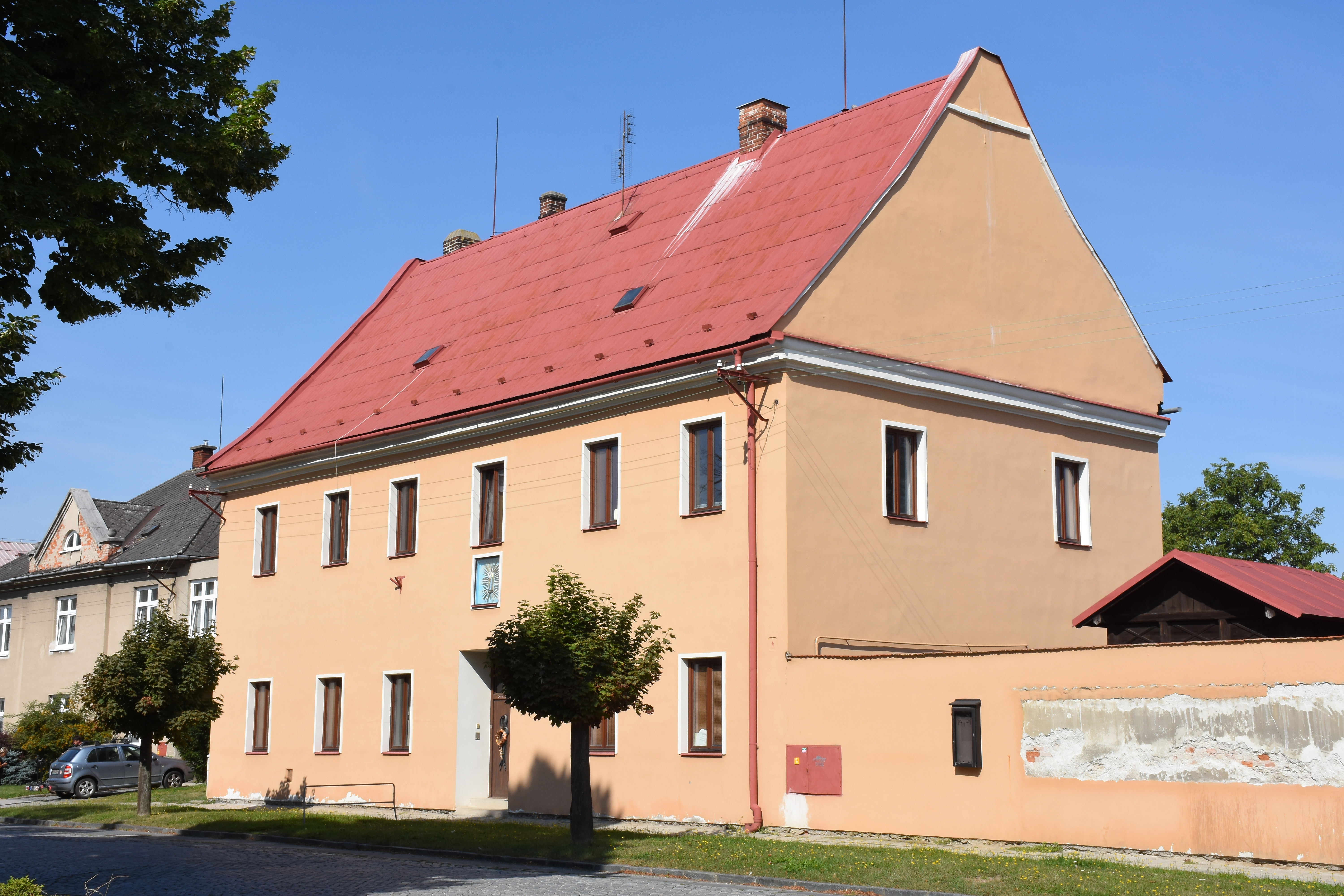 Bohuňovice, Olomouc District, Czech Republic.